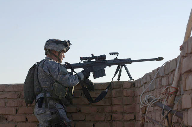 A U.S. Army sniper with Bravo Company, 502nd Infantry Regiment, 101st Airborne Division stands ready to engage targets during a mission on the outskirts of Baghdad, Iraq.